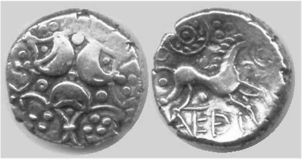 An Iron Age Gold stater from NULL of Anted Iceni Celtic Coin Index reference: 3.0438